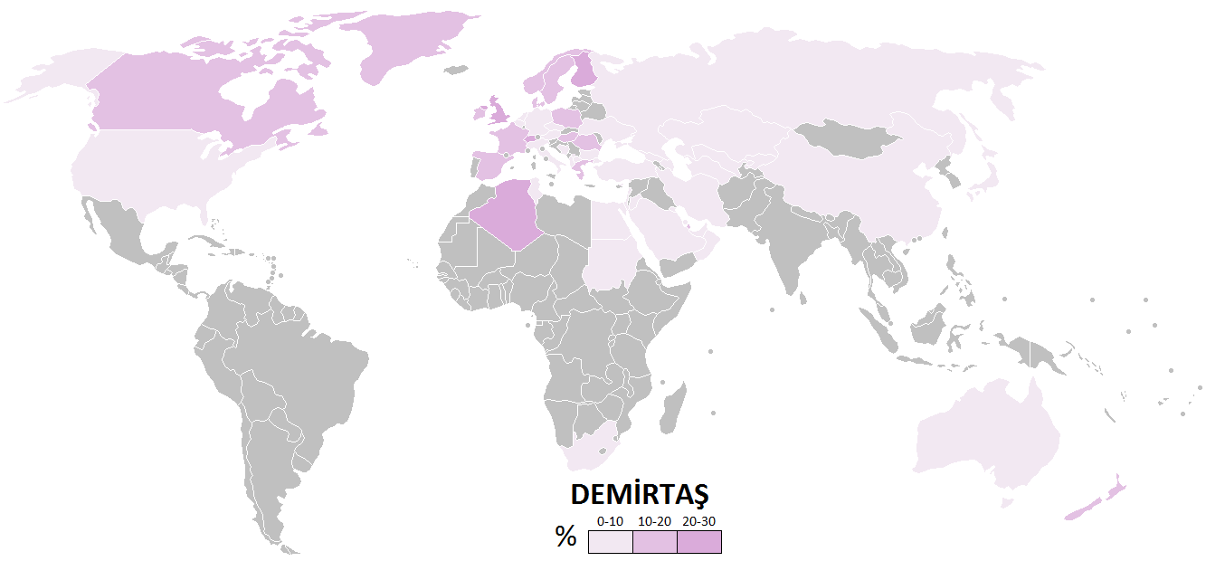 Map showing the distribution of overseas vote for Selahattin Demirtaş in the 2014 Turkish presidential election. Original version by Roke is here.